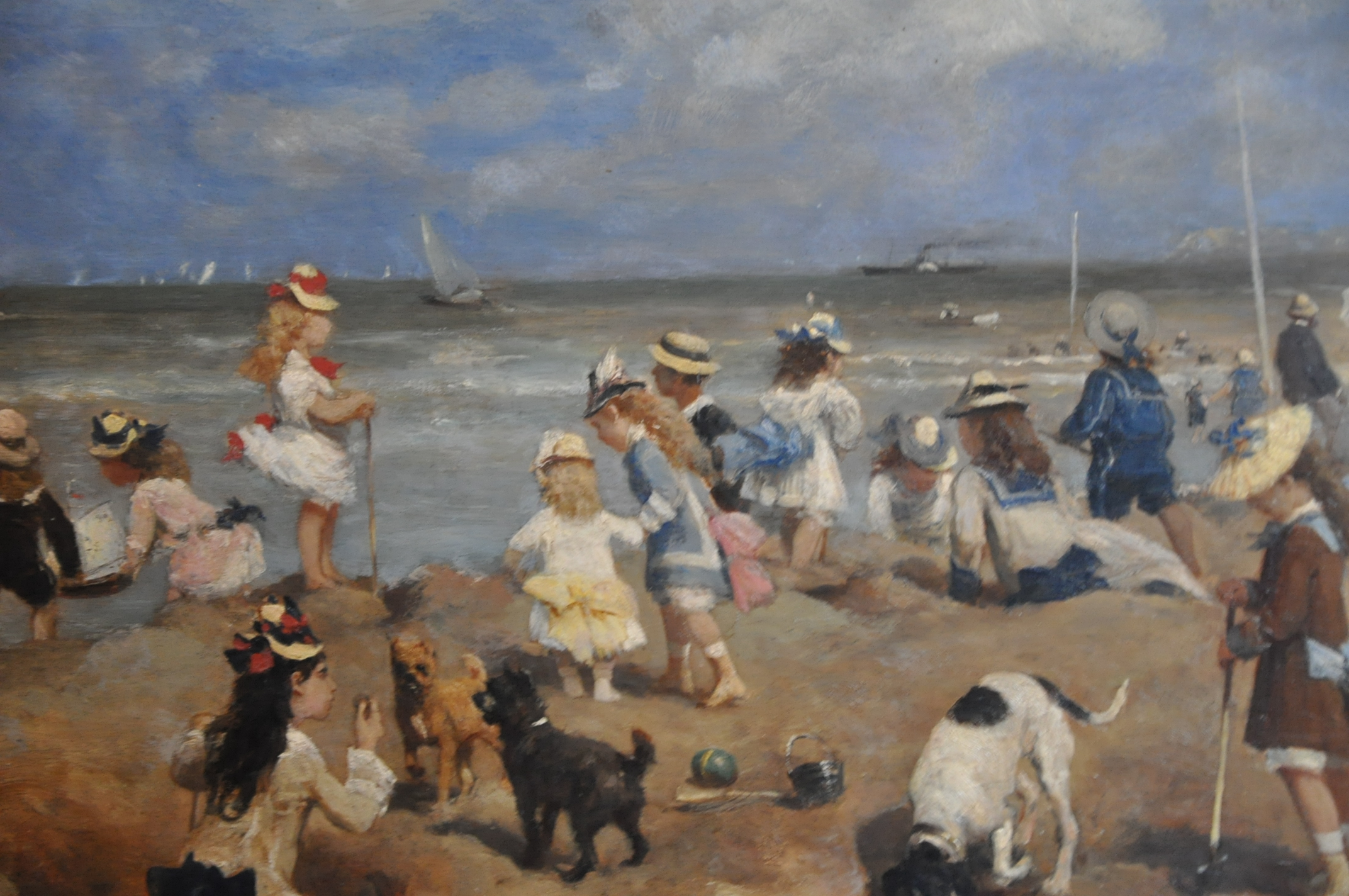 Children playing in beach of Trouville (France, Normandy)